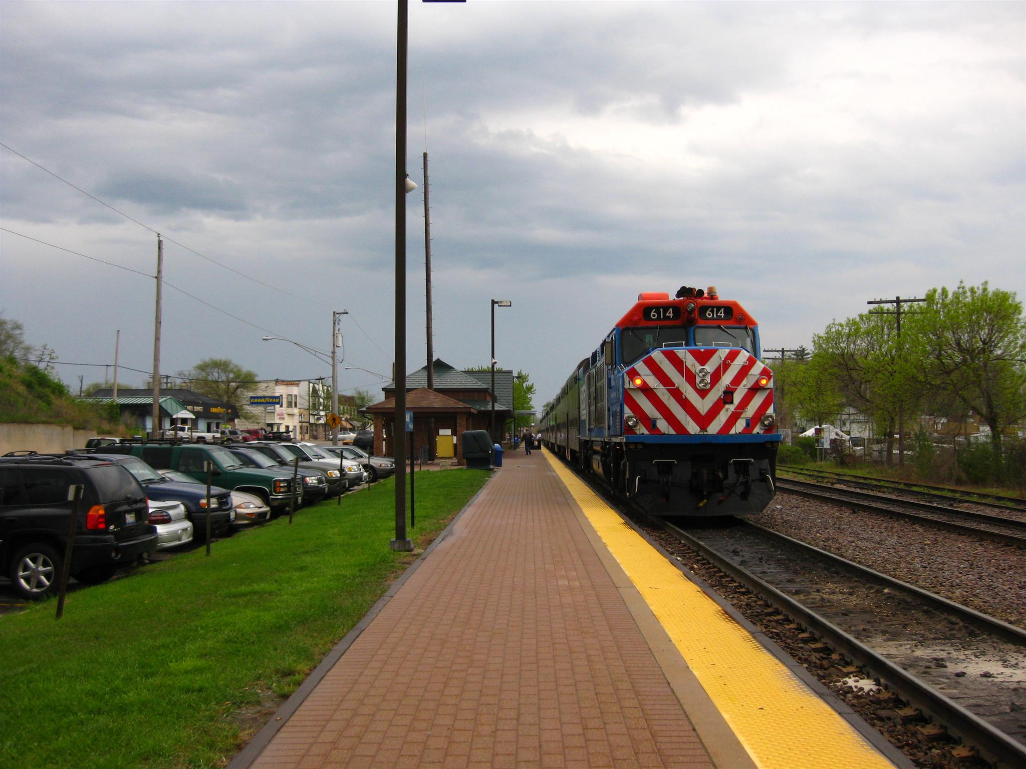 Metra F40C number 614 ready to depart for Chicago after completing run number 2121 to Fox Lake.